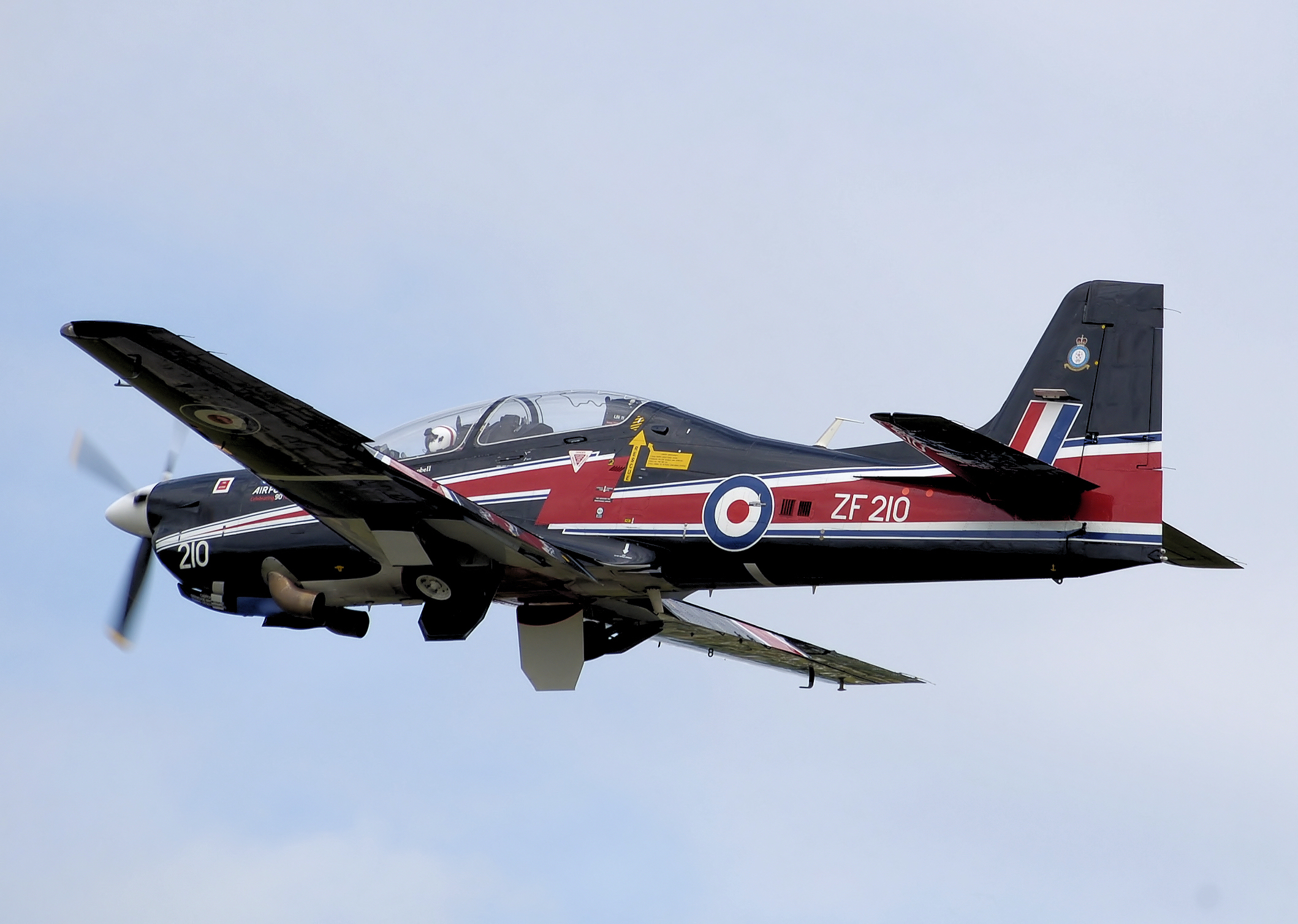 Royal Air Force Short Tucano T1 (ZF210) at the 2008 Air Day, Kemble Airport, Gloucestershire, England. This aircraft is in special colours as the RAF display Tucano for 2008. The Tucano T1 is a modified version of the Brazilian Embraer EMB 312 Tucano and is built under licence by Short of Belfast in Northern Ireland.